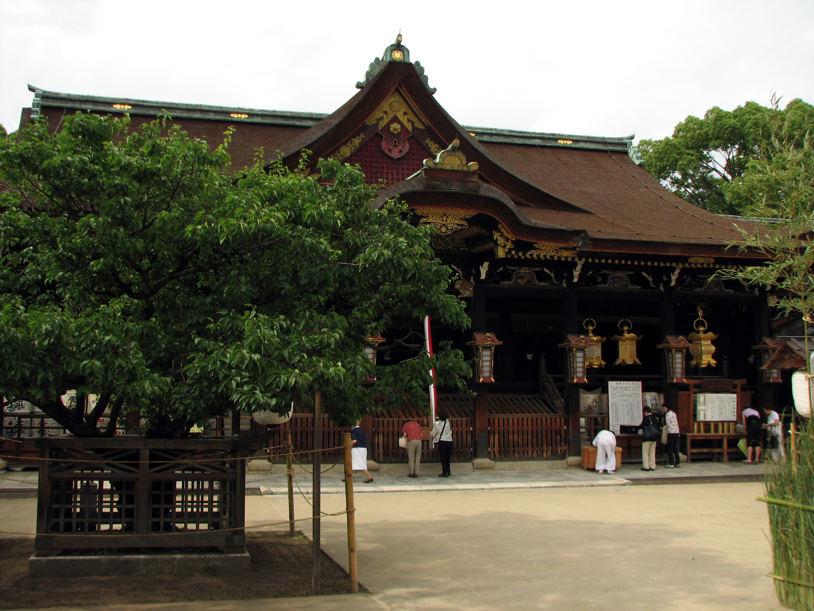 The main building at Kitano Tenmangu